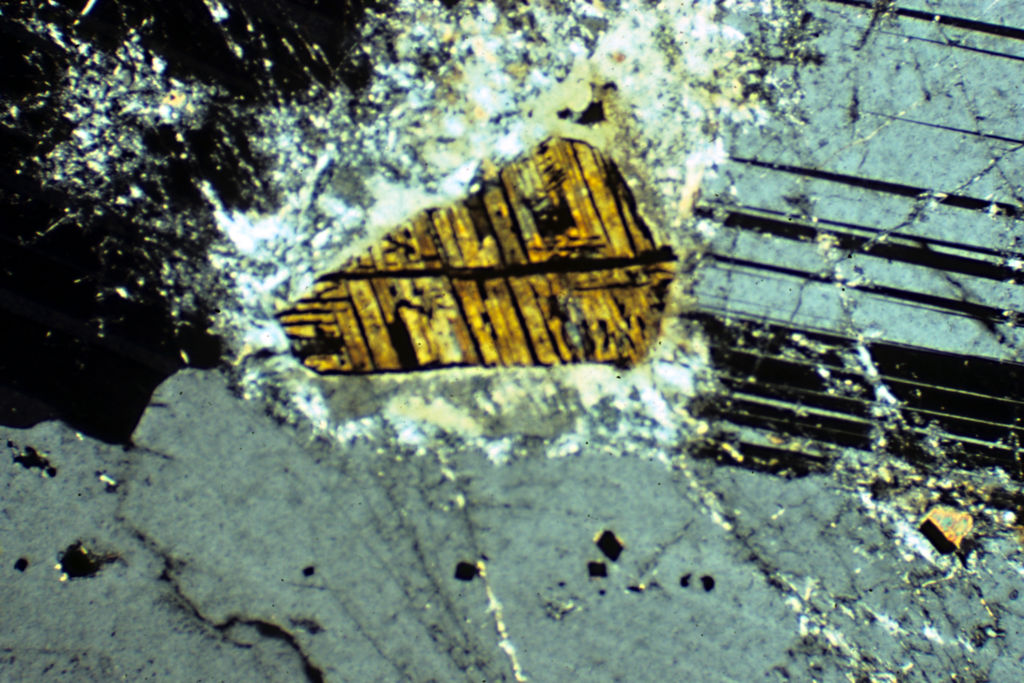 Anorthosite, with skeletal crystal of magnetite, cross polarized light. From the Bushveld Igneous Complex